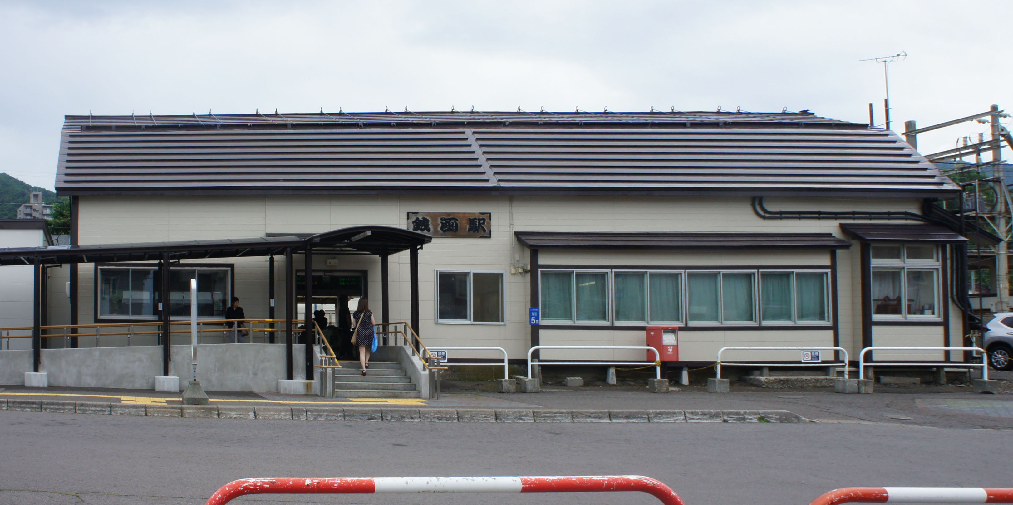 Station building of JR Hakodate-Main-Line Zenibako Station